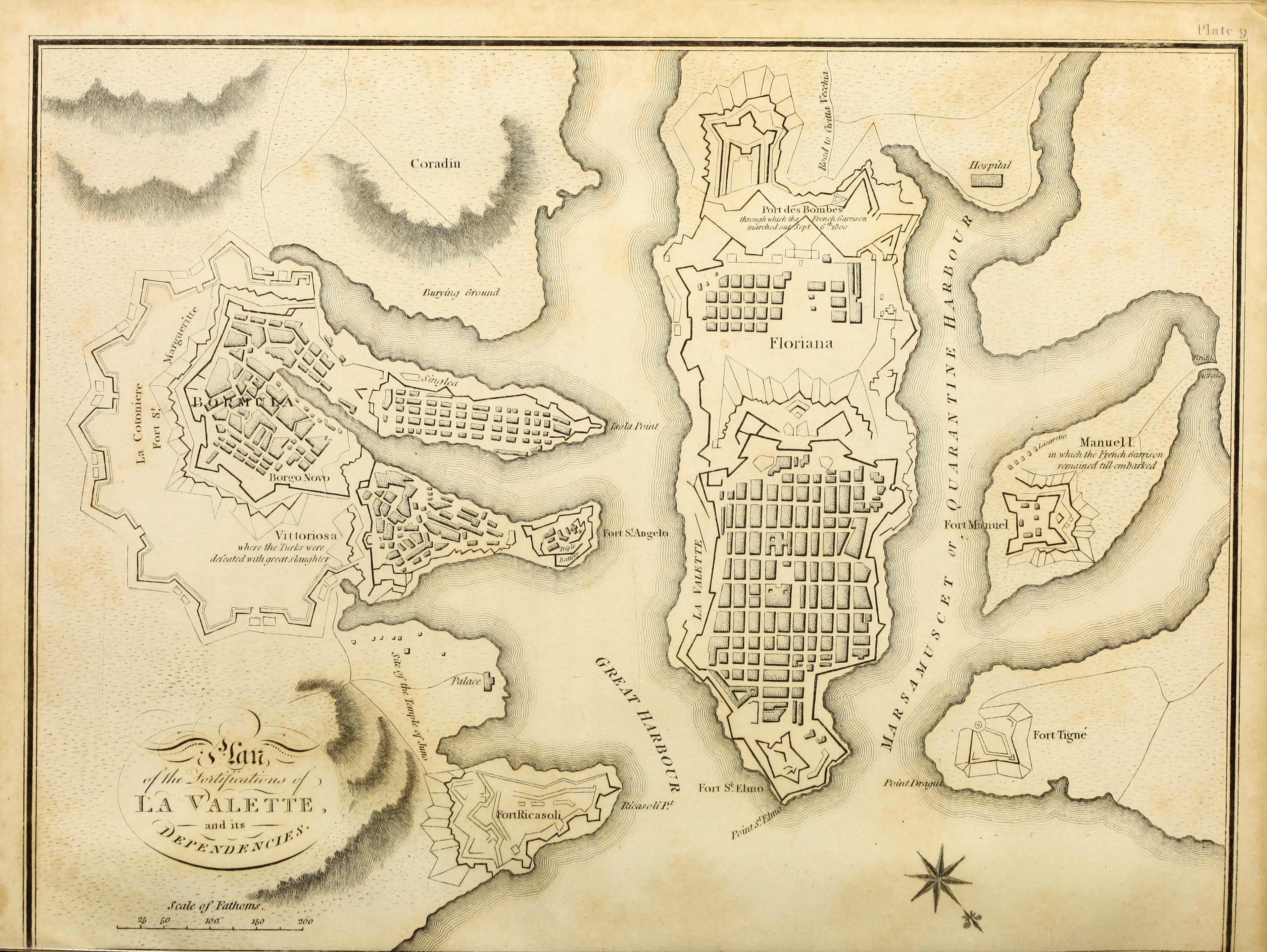 Plan of the Fortifications of La Valette and its dependencies (1803)